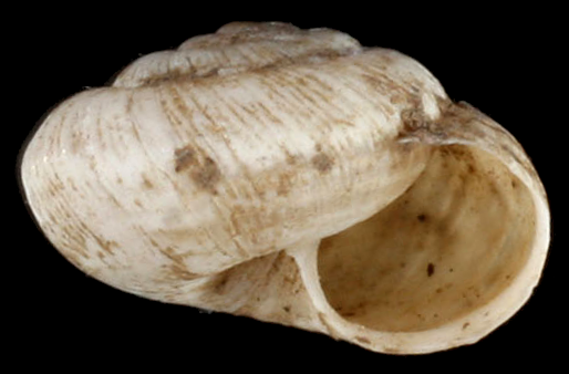 Apertural view of the shell of Xerocrassa geyeri. Locality: Germany: near Fulda. Date: 01-12-1963.